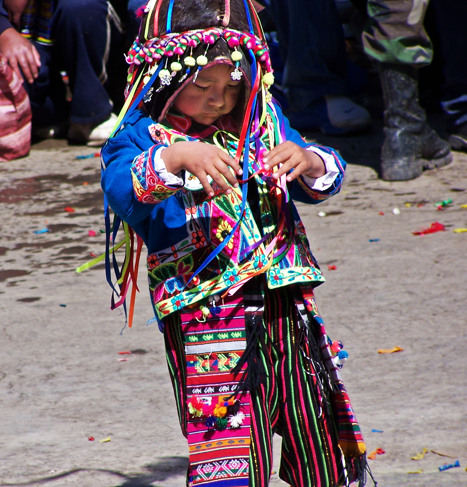 Little boy dancing in the Oruro´s Carnival in Bolivia.